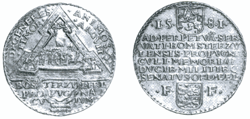 Commemorative coin of the Siege of Niezijl in 1581.